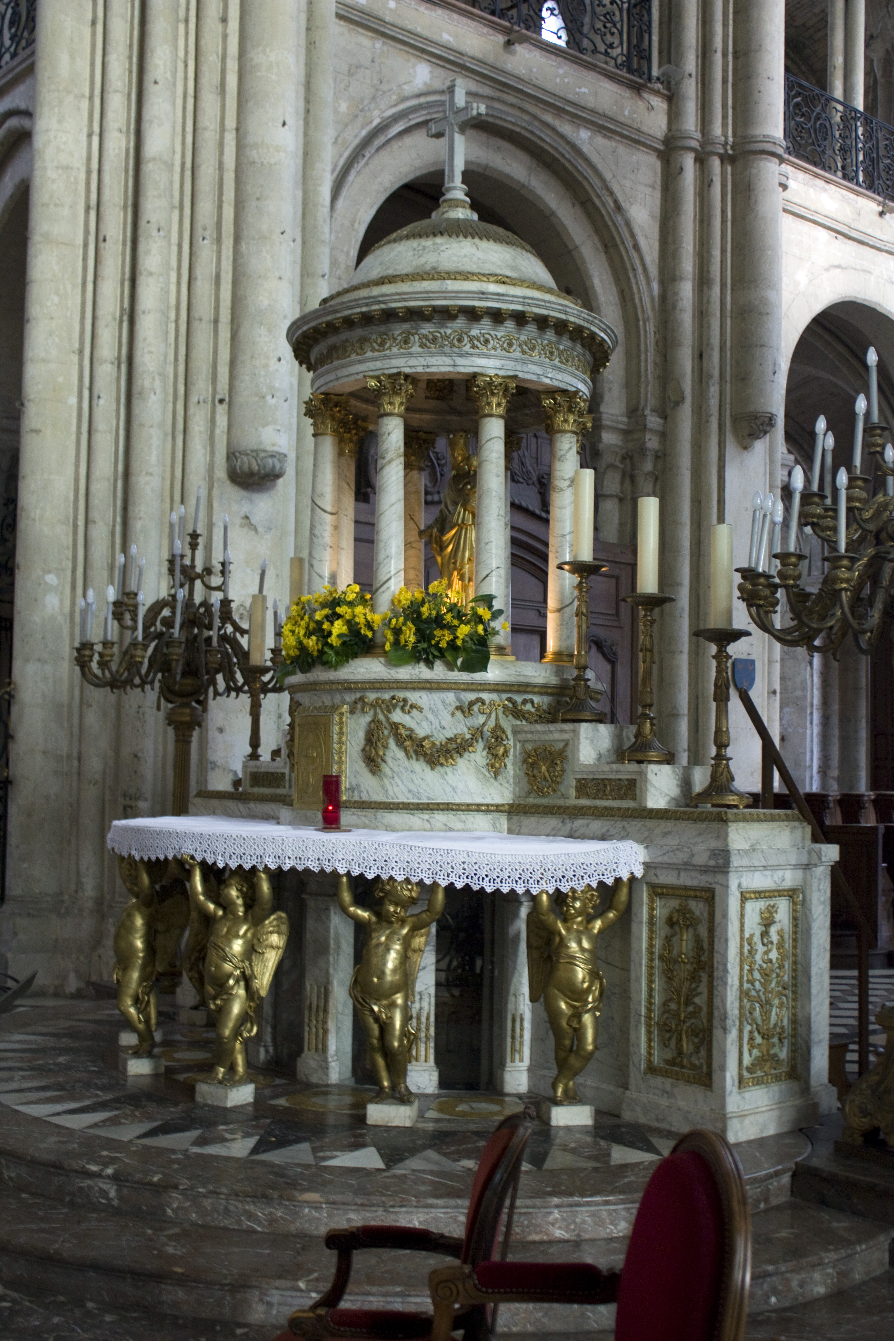 The high altar.